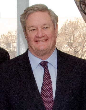 Agriculture Secretary Tom Vilsack hosted a breakfast for Western Governors and Federal Officials, at the Lincoln Room at the United States Department of Agriculture headquarters, in Washington, D.C., on Sunday, February 26, 2012. This event was followed by his speech at the National Governor’s Association Education, Early Childhood and Workforce committee. Seated, left to right, Interior Secretary Ken Salazar, Council on Environmental Quality Chair Nancy Sutley, Environmental Protection Agency Administrator Lisa Jackson, Agriculture Secretary Tom Vilsack, Washington - Governor and Western Governors Association (WGA) Chair Chris Gregoire, Northern Mariana Islands – Governor Benigno R. Fitial, Guam - Governor Eddie Calvo, and South Dakota - Governor Dennis Daugaard. Standing, left to right, Colorado - Governor John Hickenlooper, Montana - Governor Brian Schweitzer, Wyoming - Governor Matt Mead, North Dakota - Governor Jack Dalrymple, Utah - Governor and WGA Vice Chair Gary Herbert, and Idaho - Governor C.L. “Butch” Otter. Arrivingafter the photo was taken were Nevada - Governor Brian Sandoval and Hawaii - Governor Neil Abercrombie. USDA Photo by Lance Cheung.